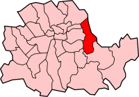 Map of the Metropolitan borough of Poplar, former County of London.